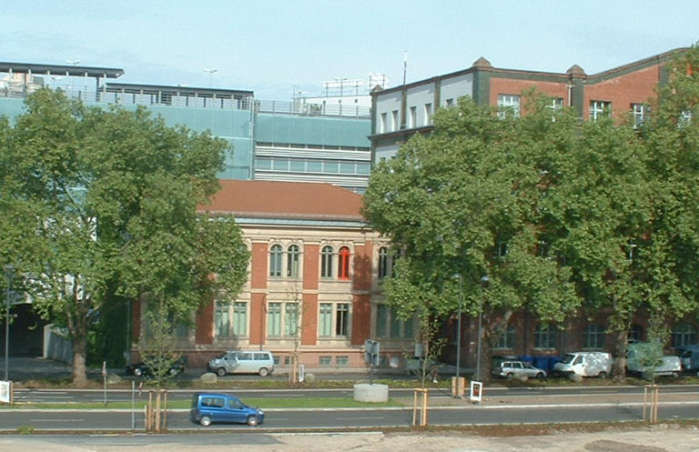 Ernst Bloch-Zentrum in Ludwigshafen